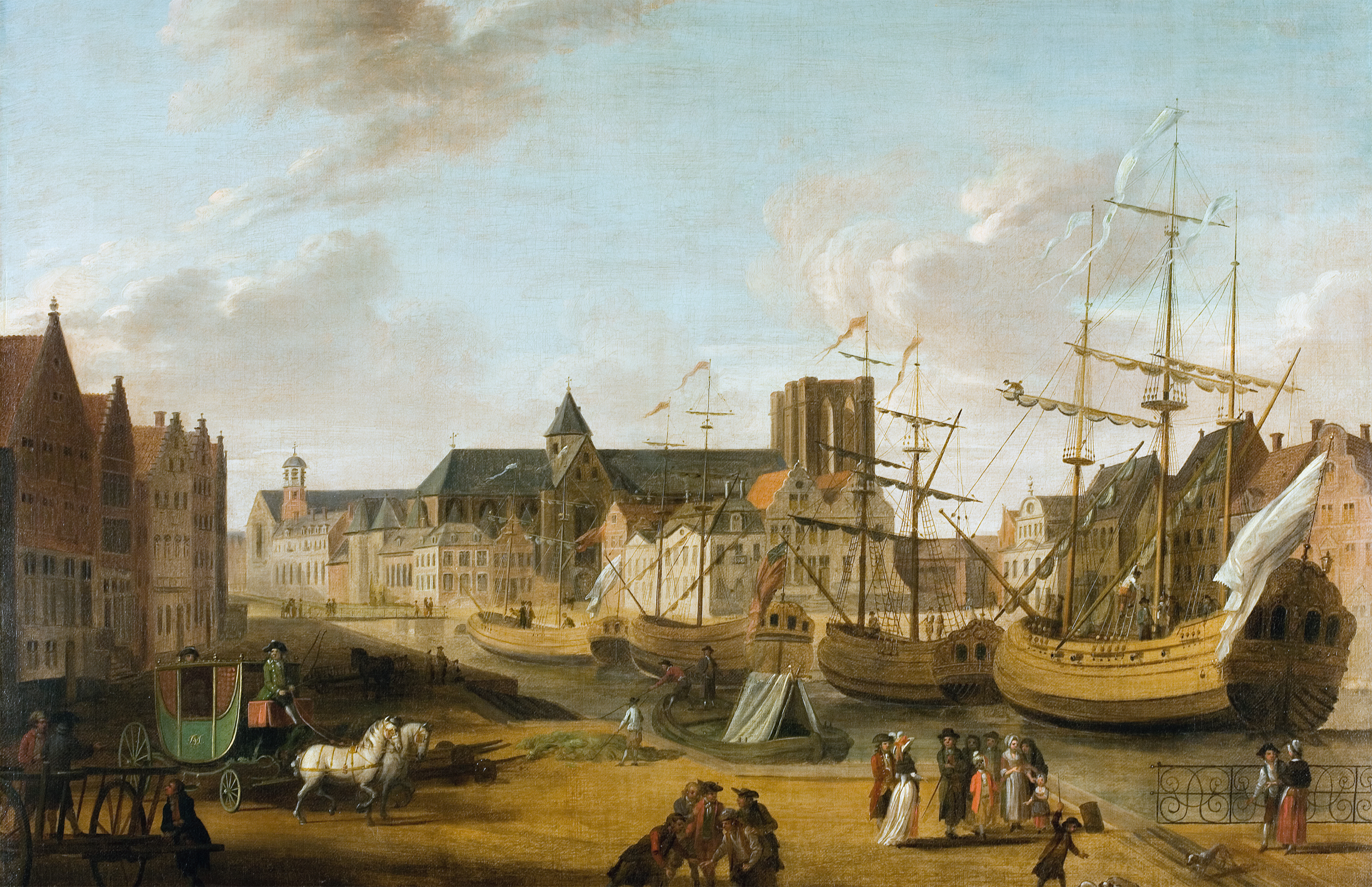 Grasleikorenlei_1791.jpg